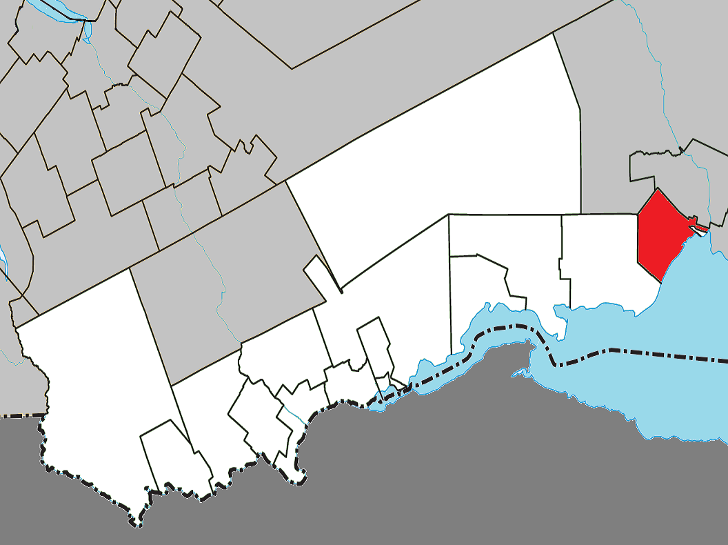 Location of Maria, Quebec within Avignon Regional County Municipality.